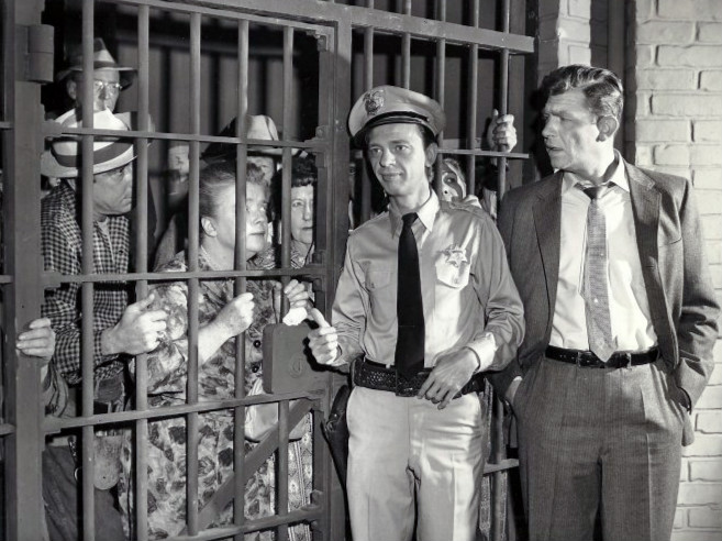 Photo from the television program The Andy Griffith Show. When Andy returns from a trip, he finds that Barney has managed to put all of Mayberry's citizens behind bars in the town jail.